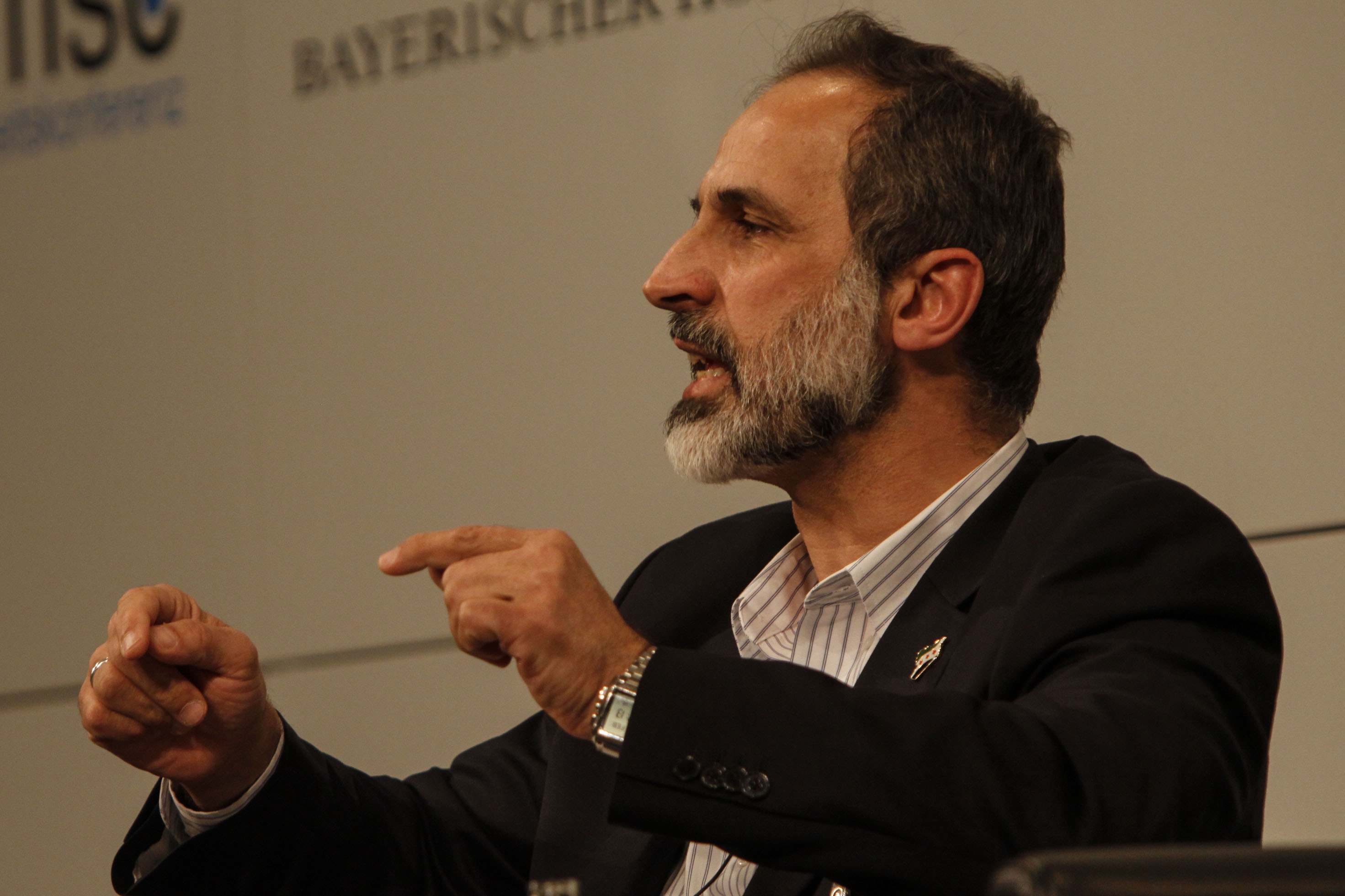 Sheikh Moaz Al-Khatib, the President of the National Coalition of Syrian Revolutionary and Opposition Forces addressing the conference participants.